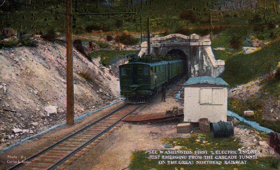 Postcard photo of a Great Northern train leaving the Cascade Tunnel. the photo seems to have been hand-colored.